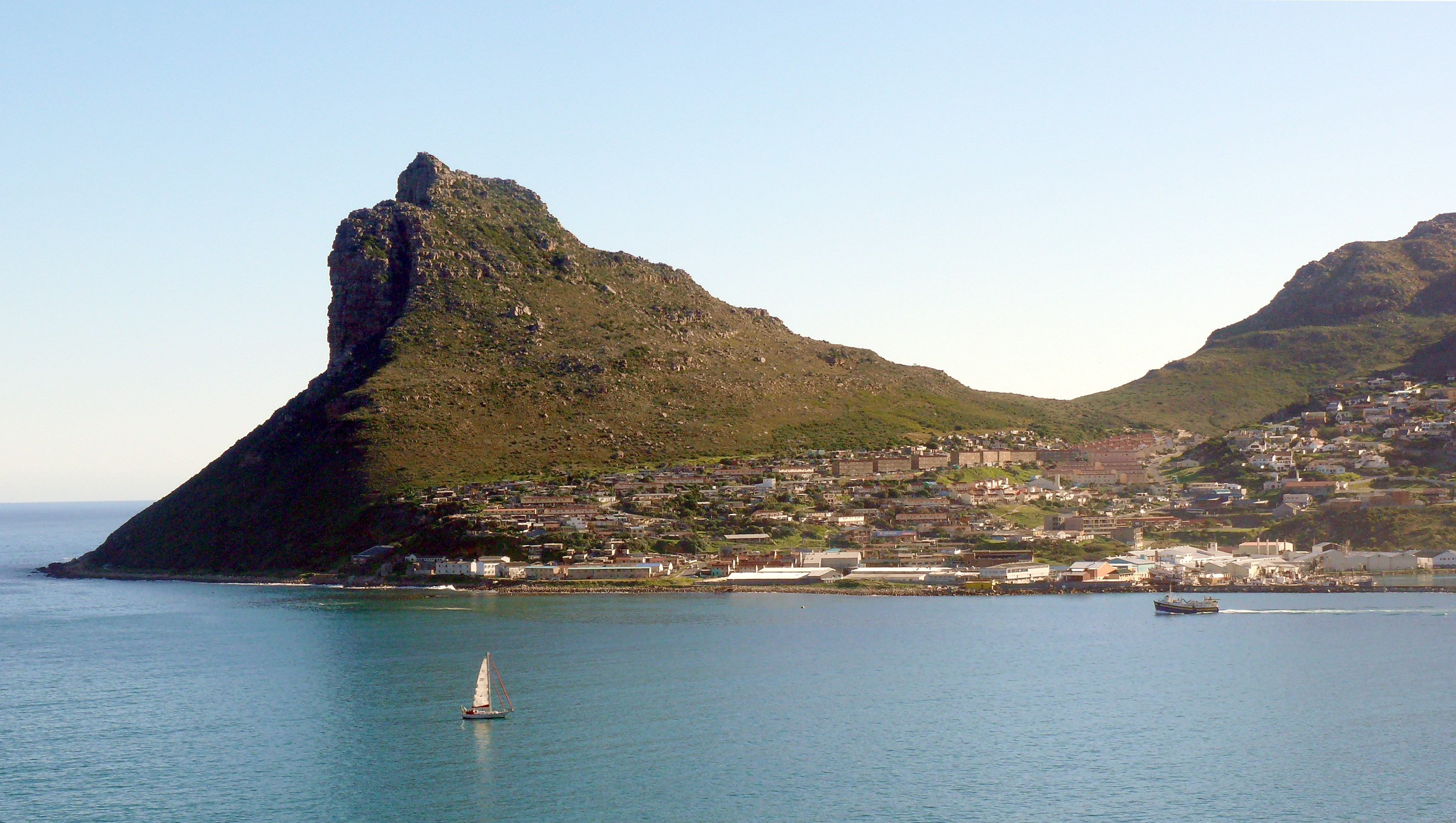 The Sentinel and the harbour at Hout Bay, Cape Peninsula, RSA